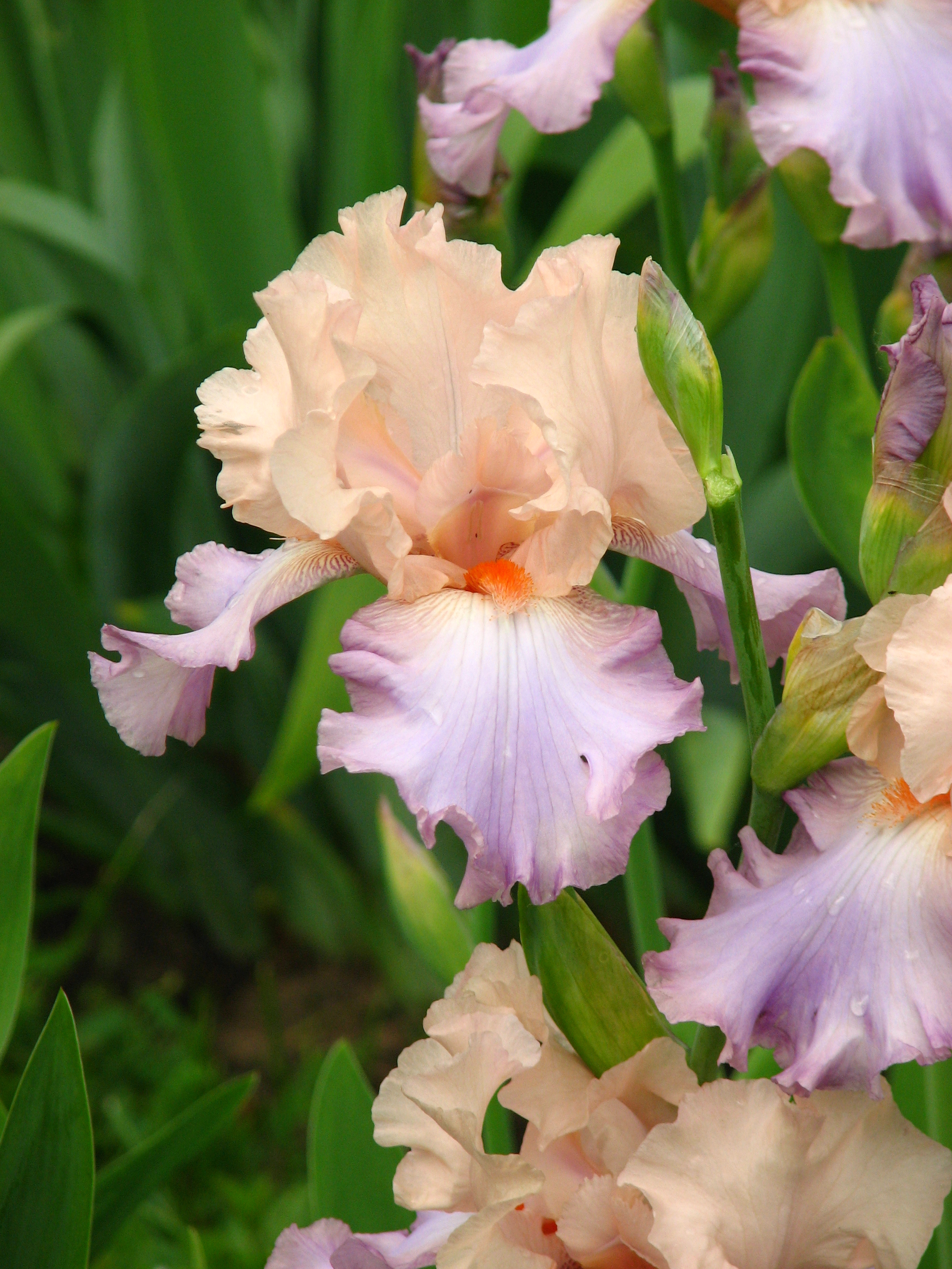 Iris 'Celebration Song'. From the collection of the Botanical Garden of Moscow State University (main area on the Sparrow Hills).